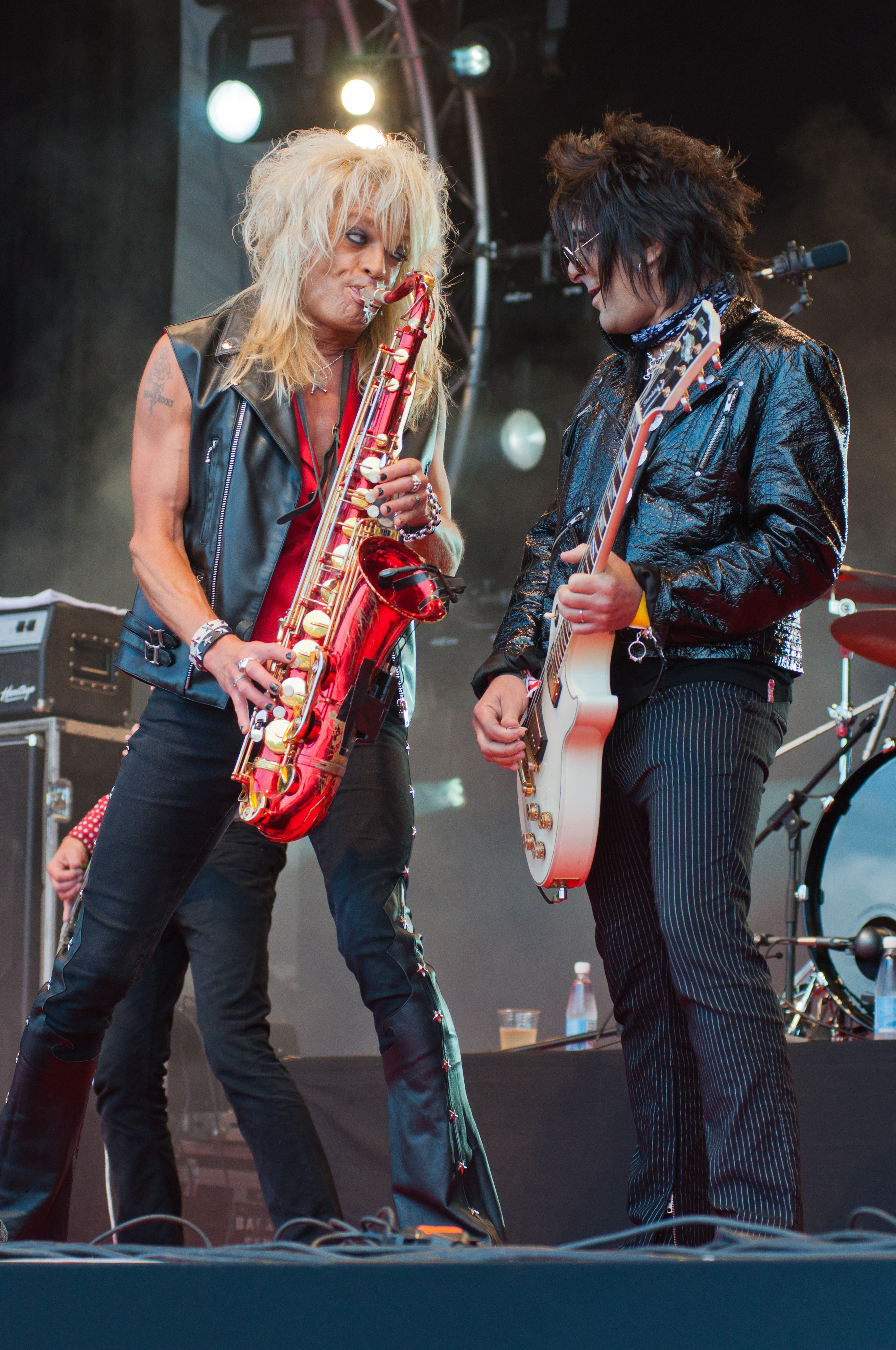 Finnish vocalist and saxophonist Michael Monroe and American guitarist Steve Conte performing at the 2011 Ilosaarirock festival in Joensuu, Finland.